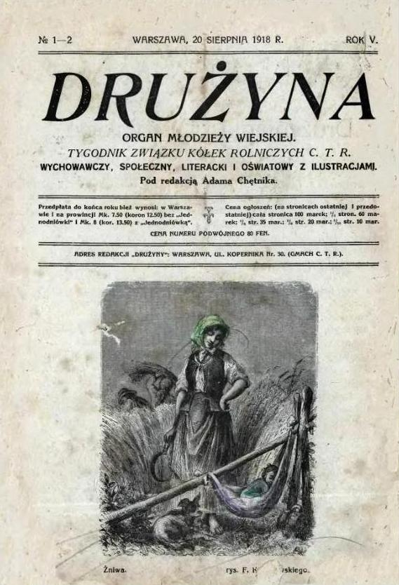 The front page of polish weekly newspaper Drużyna on August 20, 1918. Editor: Adam Chętnik.